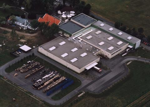 Kékkút, Hungary, aerialphotography, mineral water factory